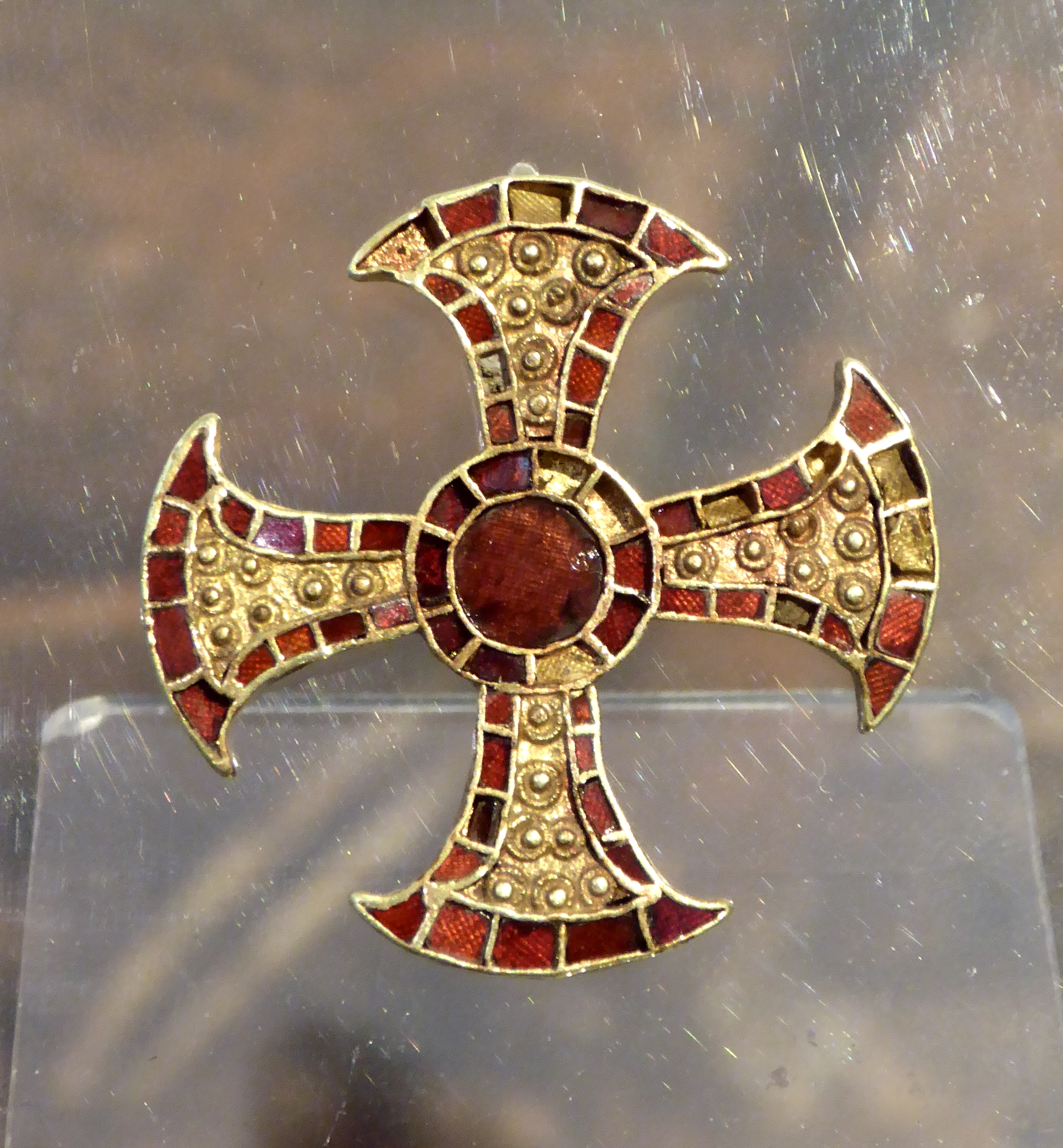 The Trumpington Cross, an Anglo-Saxon artefact recovered with a female bed burial grave in Trumpington, Cambridgeshire.